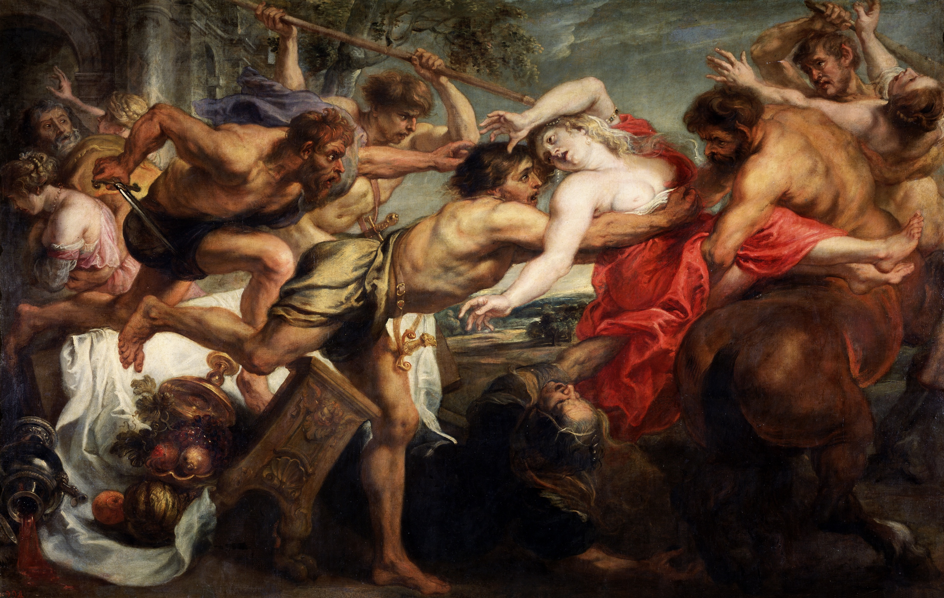 The Rape of Hippodamea (Lapiths and Centaurs)